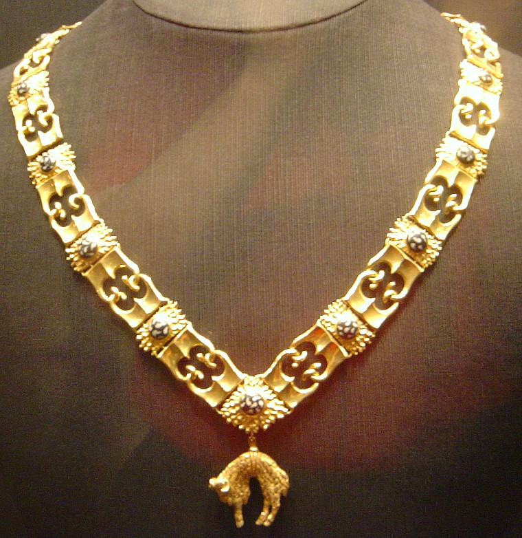 The Order of the Golden Fleece insignia.